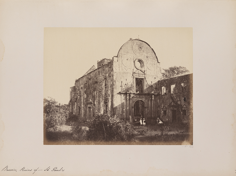 Title: Bassein, Ruins of - St. Paul's Creator: Johnson, William Date: ca. 1855-1862 Series: Photographs of Western India. Volume II. Scenery, Public Buildings, &c. Part of: Photographs of Western India Place: Vasai-Virar, Maharashtra, India Physical Description: 1 photographic print: part of 1 volume (100 albumen prints); 20 x 26 cm on 35 x 42 cm mount File: vault_ag2002_1407x_2_144_bassein_opt.jpg Rights: Please cite Southern Methodist University, Central University Libraries, DeGolyer Library when using this image file. A high-quality version of this file may be obtained for a fee by contacting . For more information and to view the image in high resolution, see: View Europe, India, and Asia: Photographs, Manuscripts, and Imprints